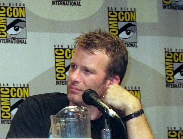 Thomas Jane at Comic Con attending the 2007 Comic Con.